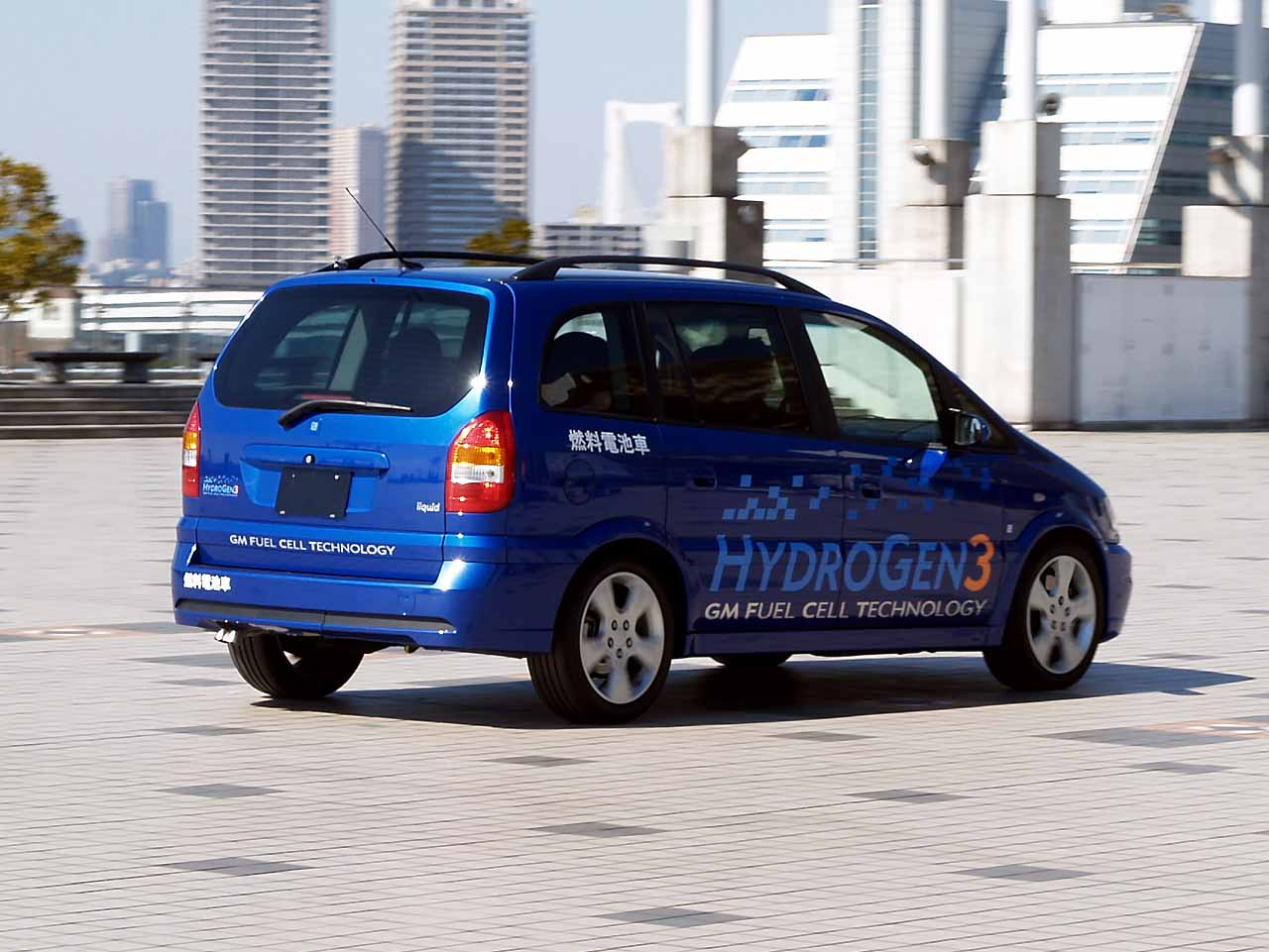 Rear and right of Hydrogen 3, a hydrogen fuel cell vehilce based Opel Zafila, manufactured by General Motors. Photos taken in FC EXPO 2008 in Tokyo Big Sight.